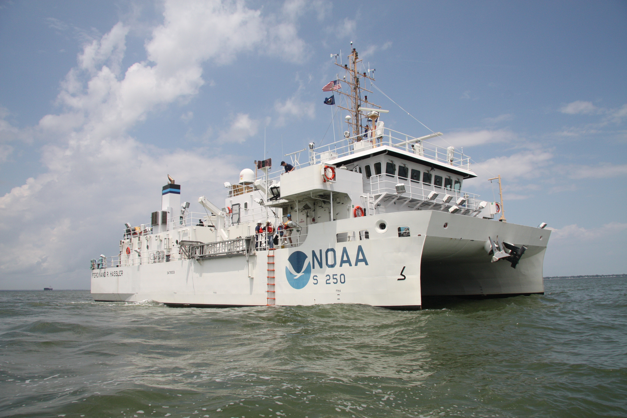 NOAA’s newest survey vessel is the Ferninand R. Hassler. Hassler is a state-of-the-art coastal mapping vessel designed to detect and monitor changes to the sea floor. Data collected by the ship will be used to update nautical charts, detect potential hazards to navigation, and further enhance our understanding of the ever-changing marine environment. NOAA Ship Hassler (Original source: National Ocean Service Image Gallery)